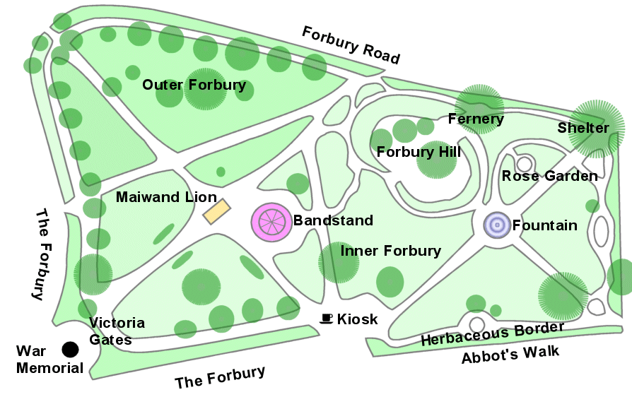 A map of Forbury Gardens, Reading, Berks, UK. It is based on a photo that was taken by me, JanesDaddy, on July 15th 2006, and is released under an open license. It's not the best, so if you can make it pretty - please do so.